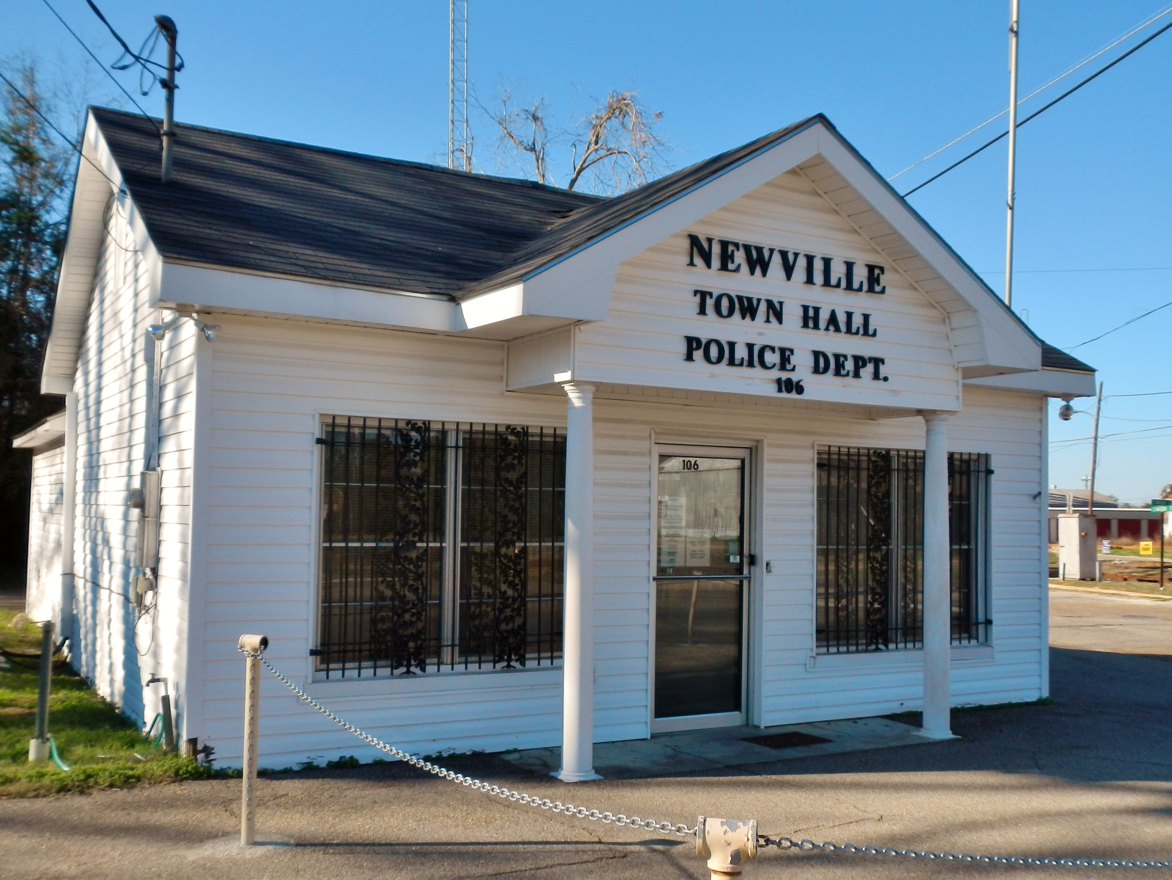 This is a photograph of the Town Hall and Police Department in Newville, Alabama.